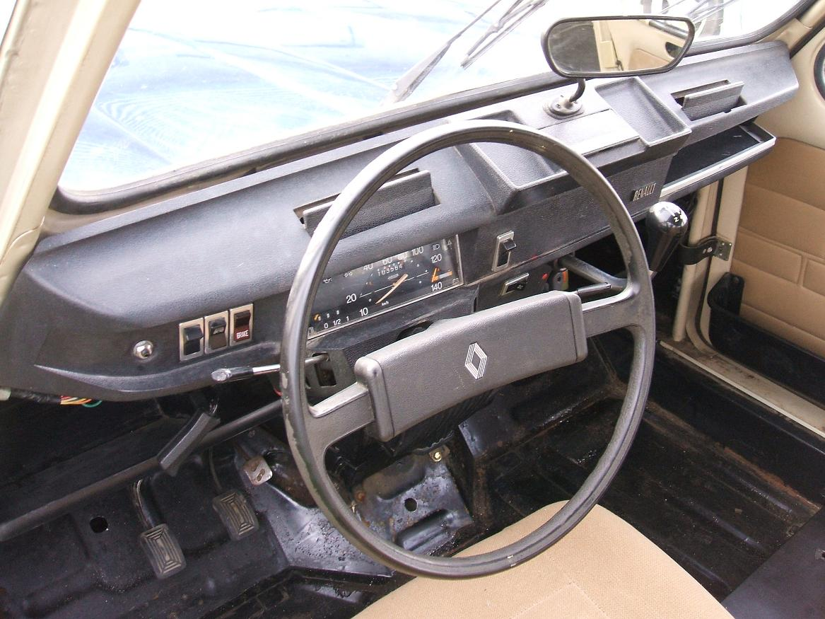 Old dashboard of Renault 4